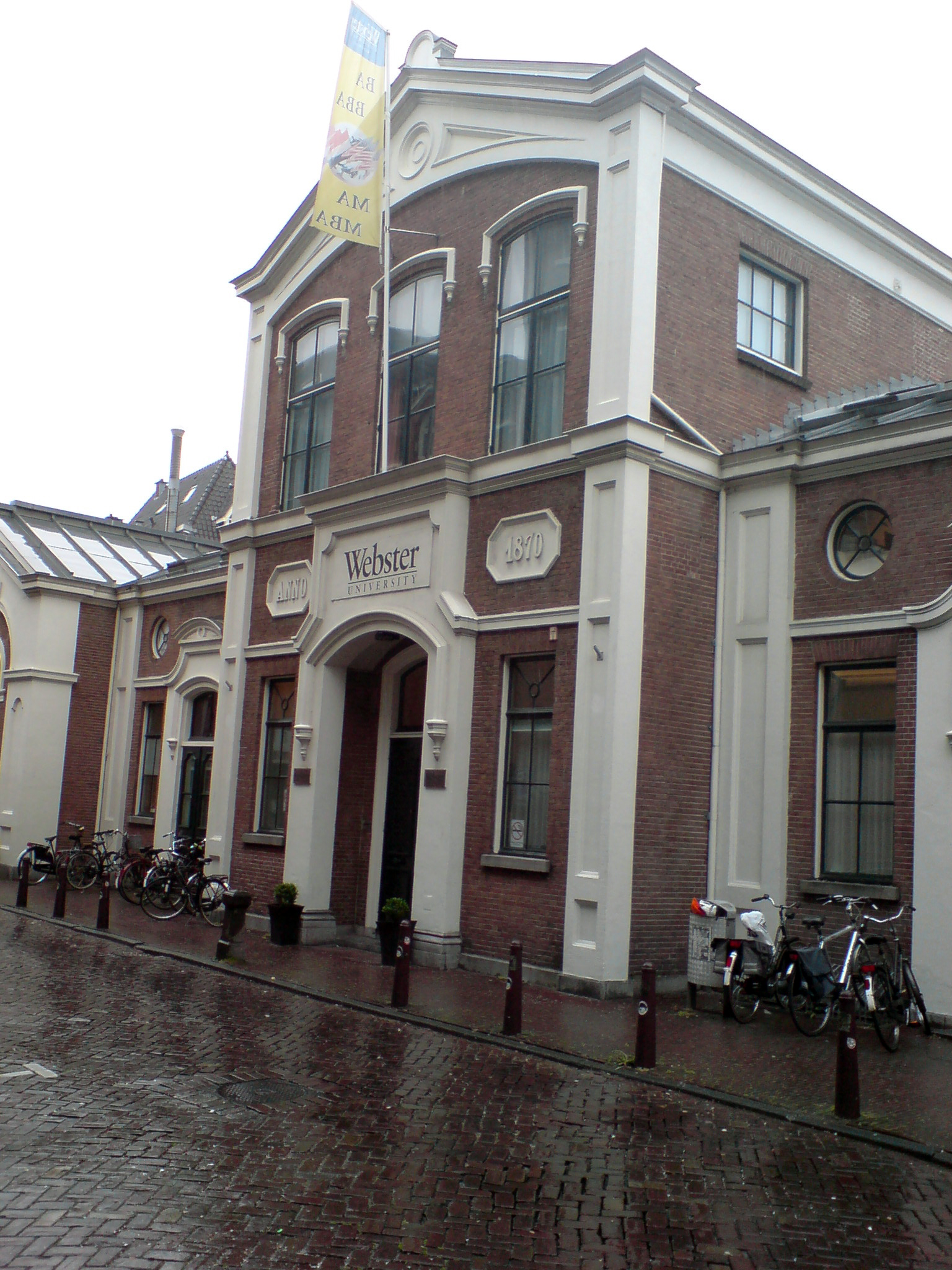 Building of the Webster University in Leiden, at Boommarkt 1, Leiden, the Netherlands